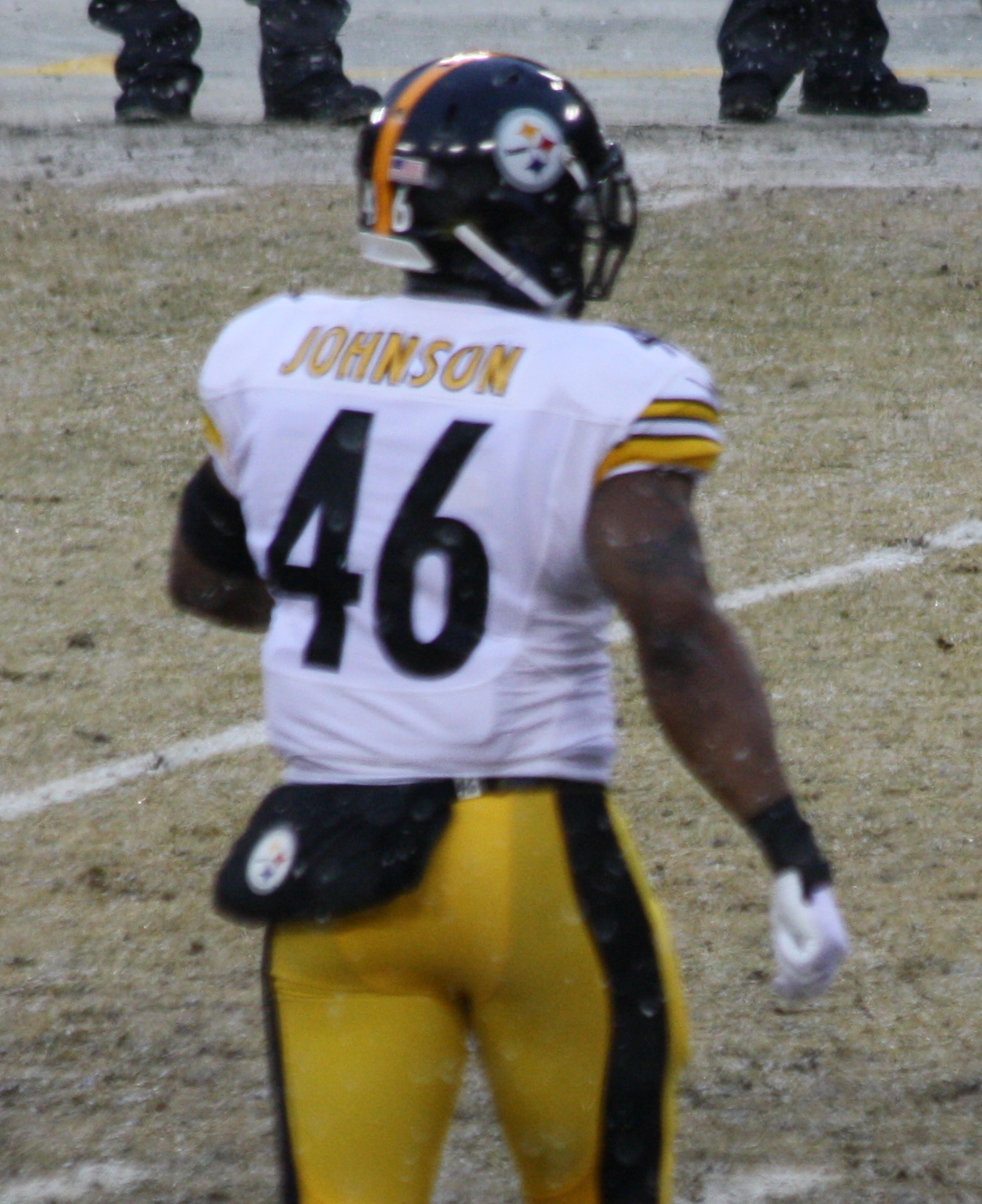 Pittsburgh Steelers player Will Johnson (American Football) entering the field.